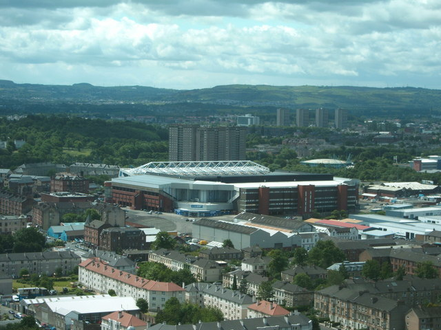 Ibrox Stadium Glasgow Rangers' stadium at Ibrox from the Glasgow Science Centre Tower.